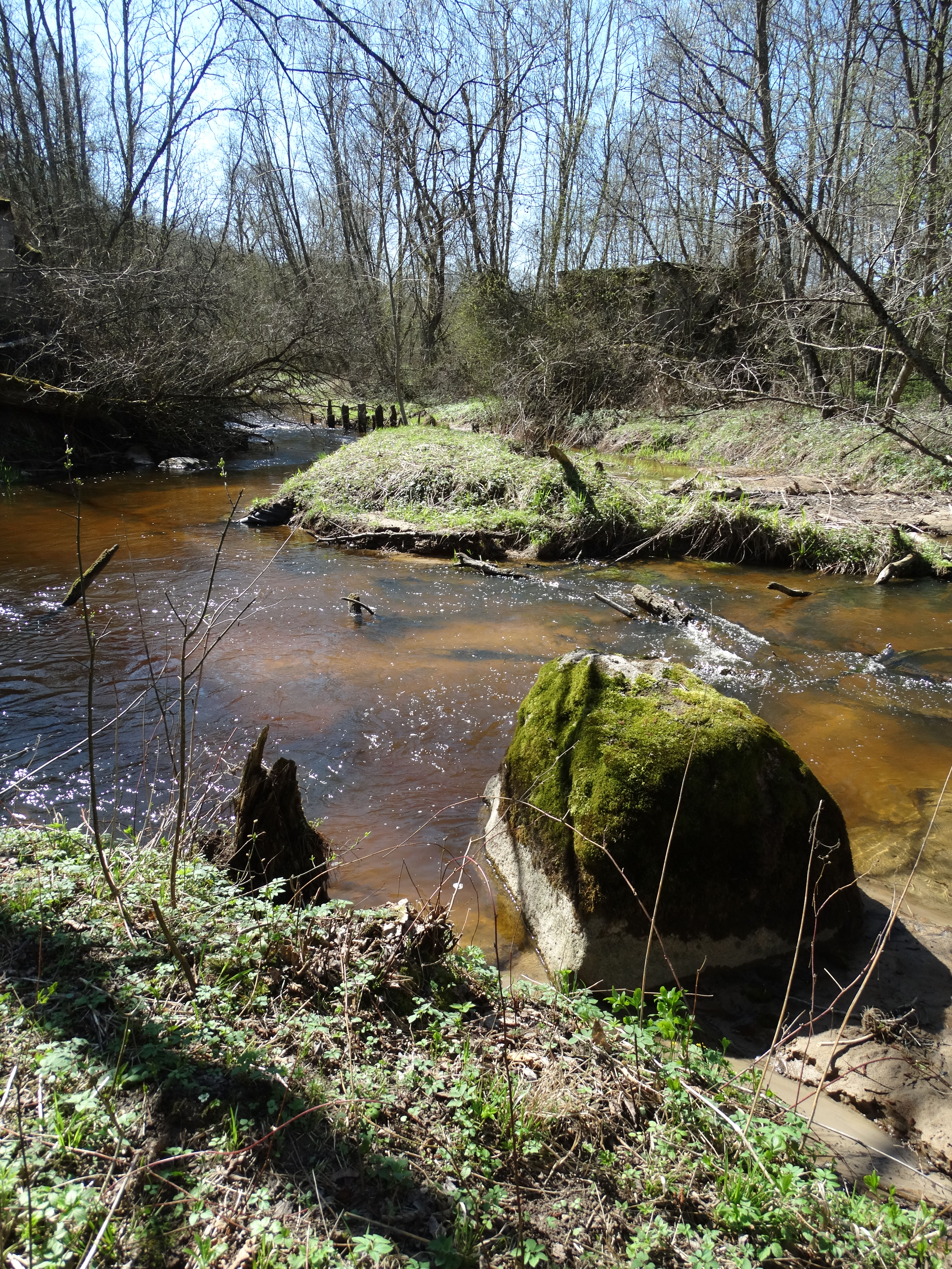 Dūkšta River in Dūkštos, Vilnius district, Lithuania